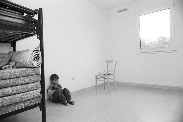 Asylum seeker in Gauting (Bavaria, Germany)